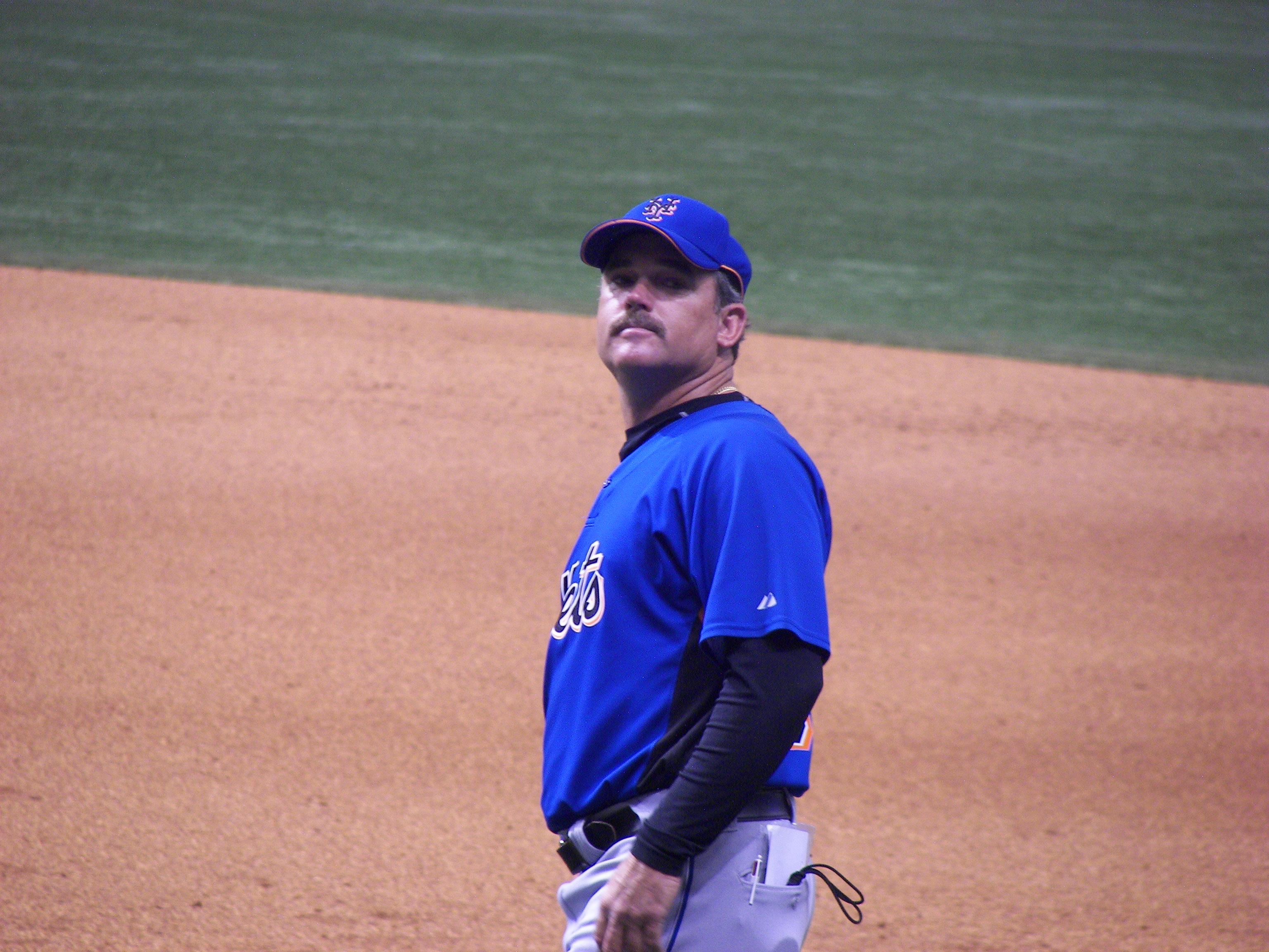 New York Mets first base coach Howard Johnson during a Mets/Devil Rays spring training game at Tropicana Field in St. Petersburg, Florida.